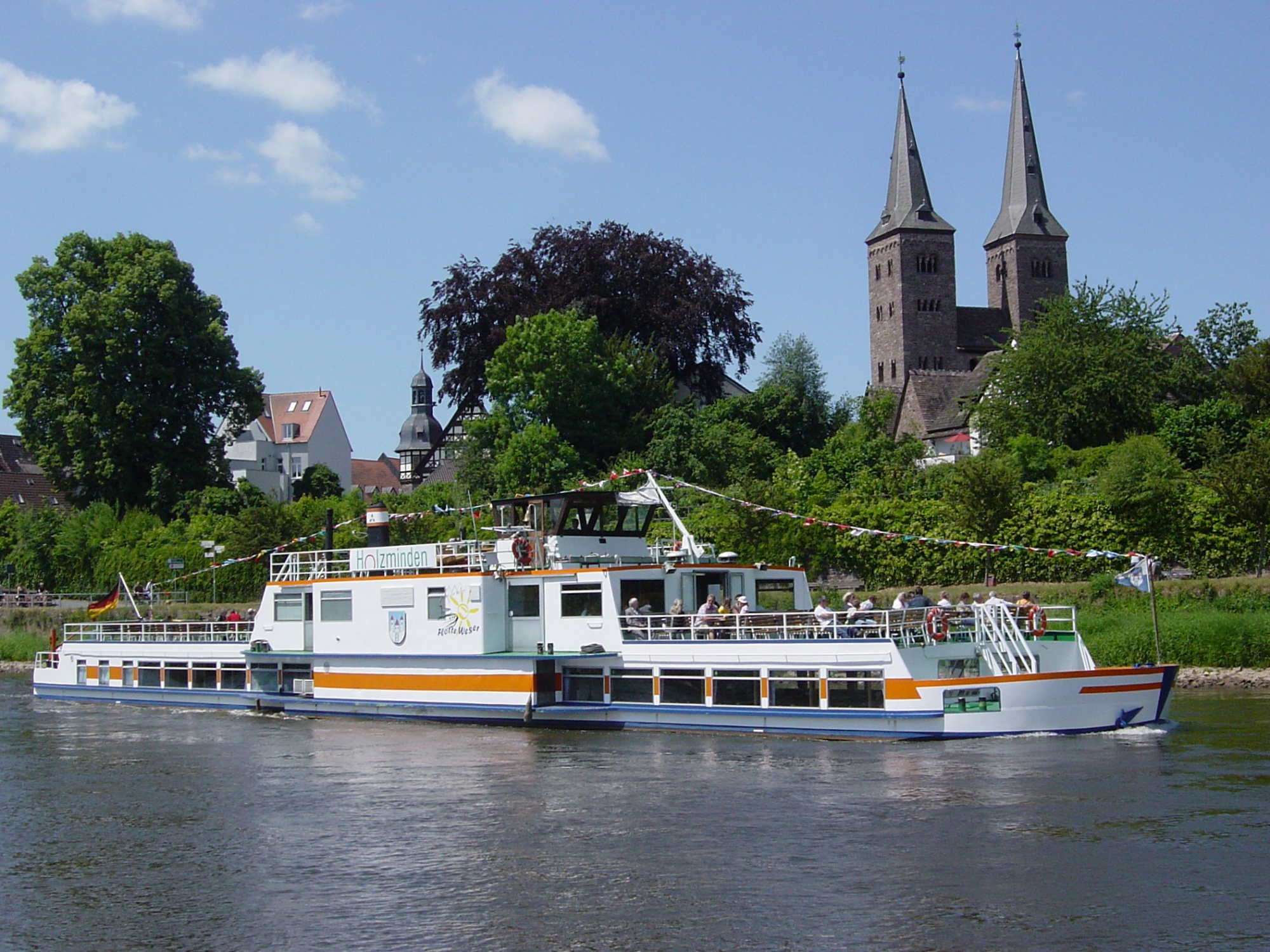 Passenger ship named “Holzminden” of fleet line “Flotte Weser” on the Weser at town of Höxter, District of Höxter, North Rhine-Westphalia, Germany.